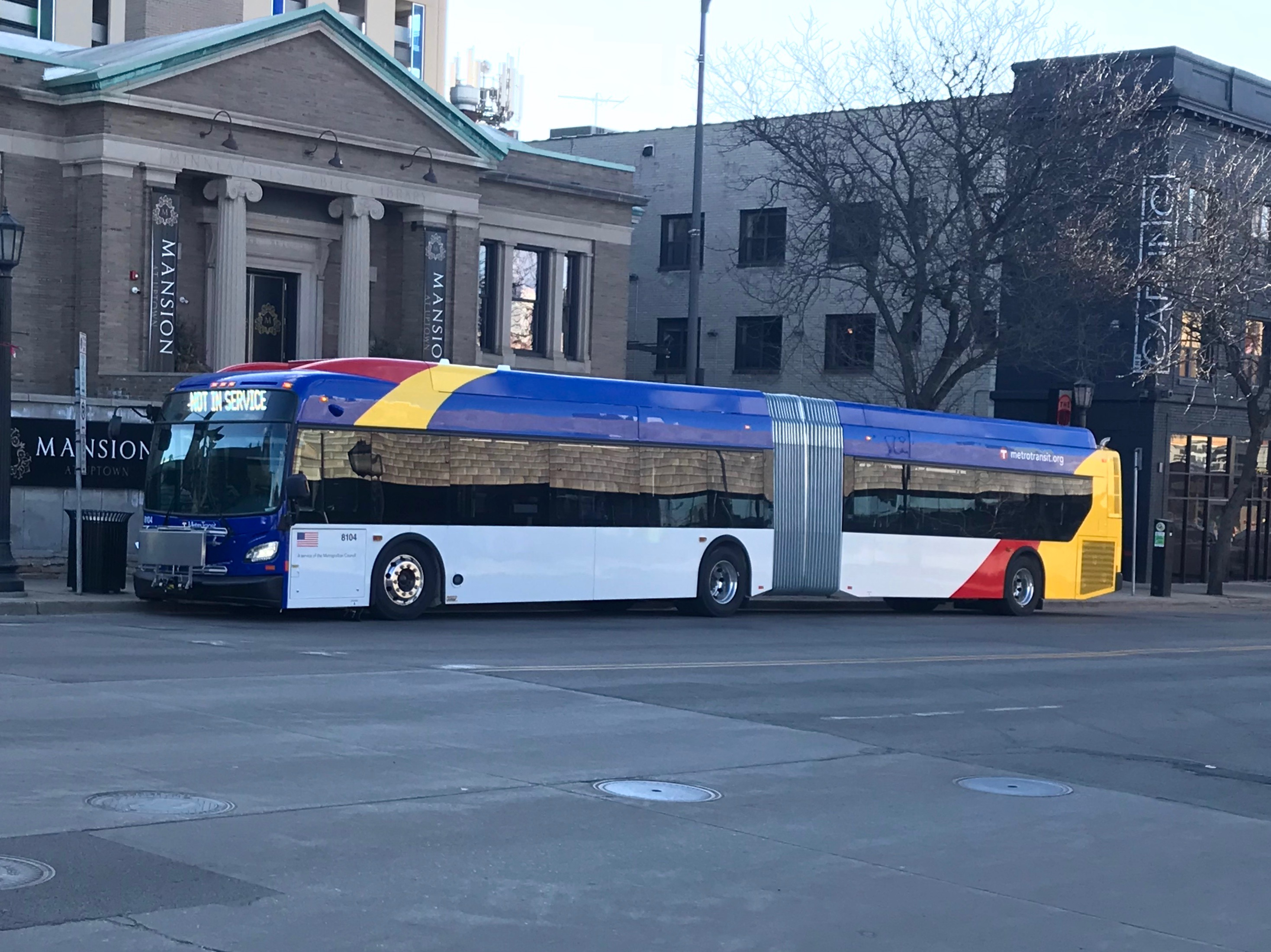 A C Line bus used in a demonstration corridor tour of the planned E Line for community and elected members on a corridor tour of the E Line. The event took place on March 30th, 2019.